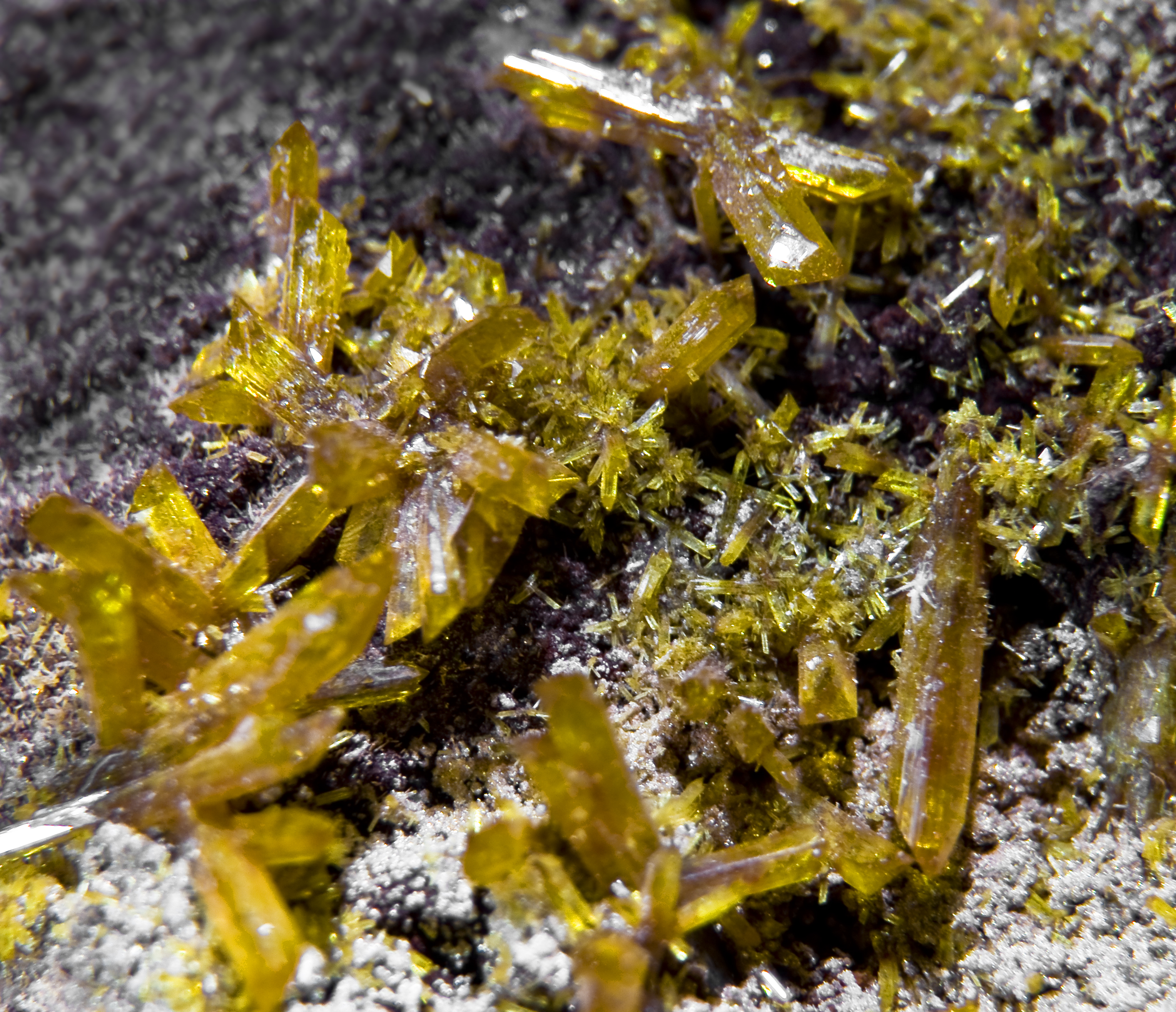 Legrandite - Ojuela Mine, Mapimí, Mun. de Mapimí, Durango, Mexico Size : (XX 0.6cm)